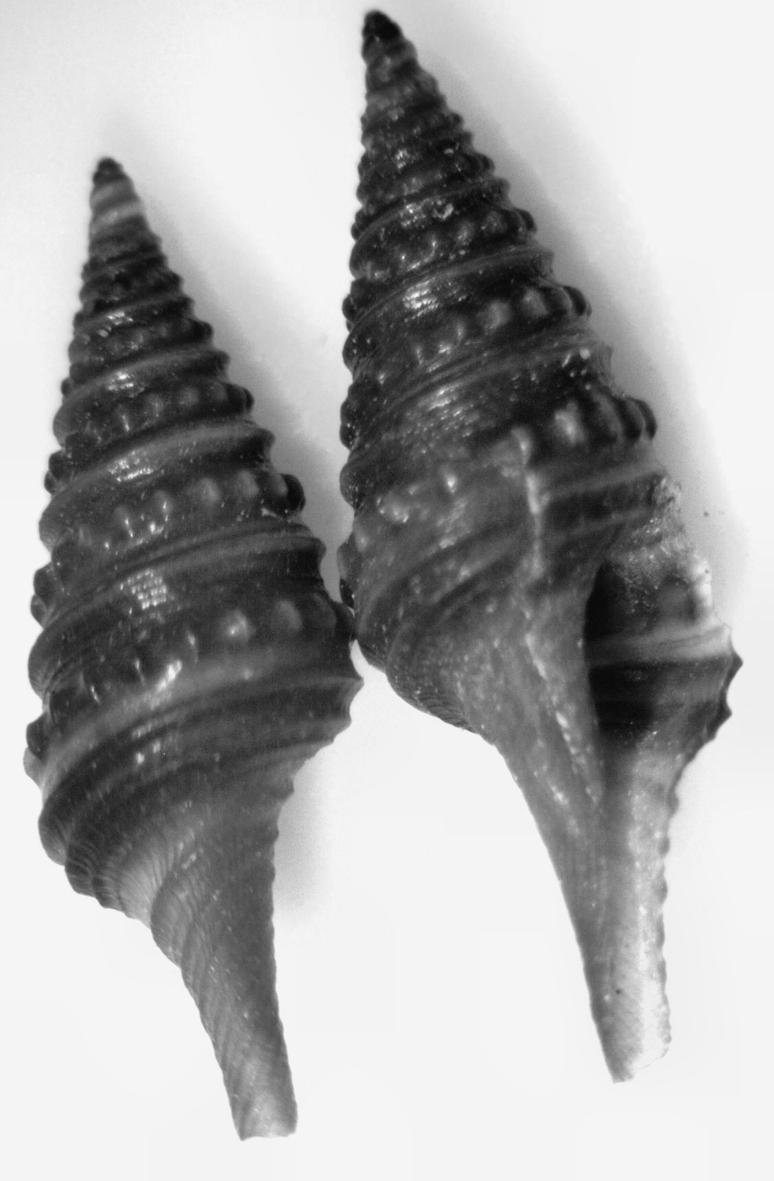 Gemmula gemmulina (E. von Martens, 1902), a turrid shell from the family Turridae; Philippines